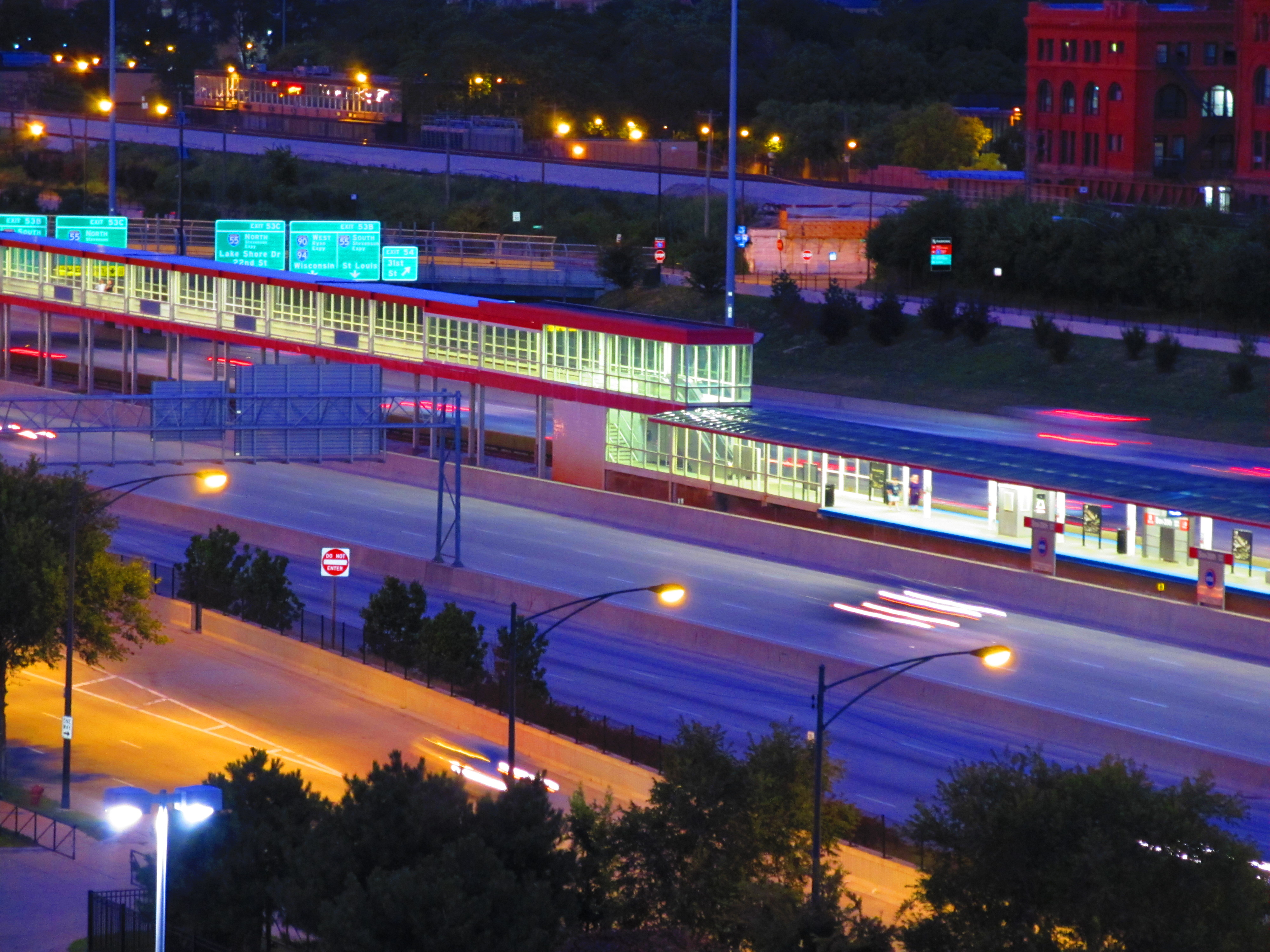 The Sox-35th CTA Red Line station in Chicago sits in the median of the Dan Ryan Expressway